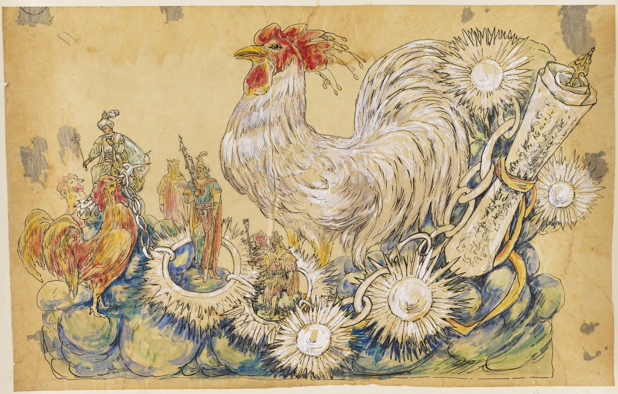 Mistick Krewe of Comus, Mardi Gras float design, 1910.